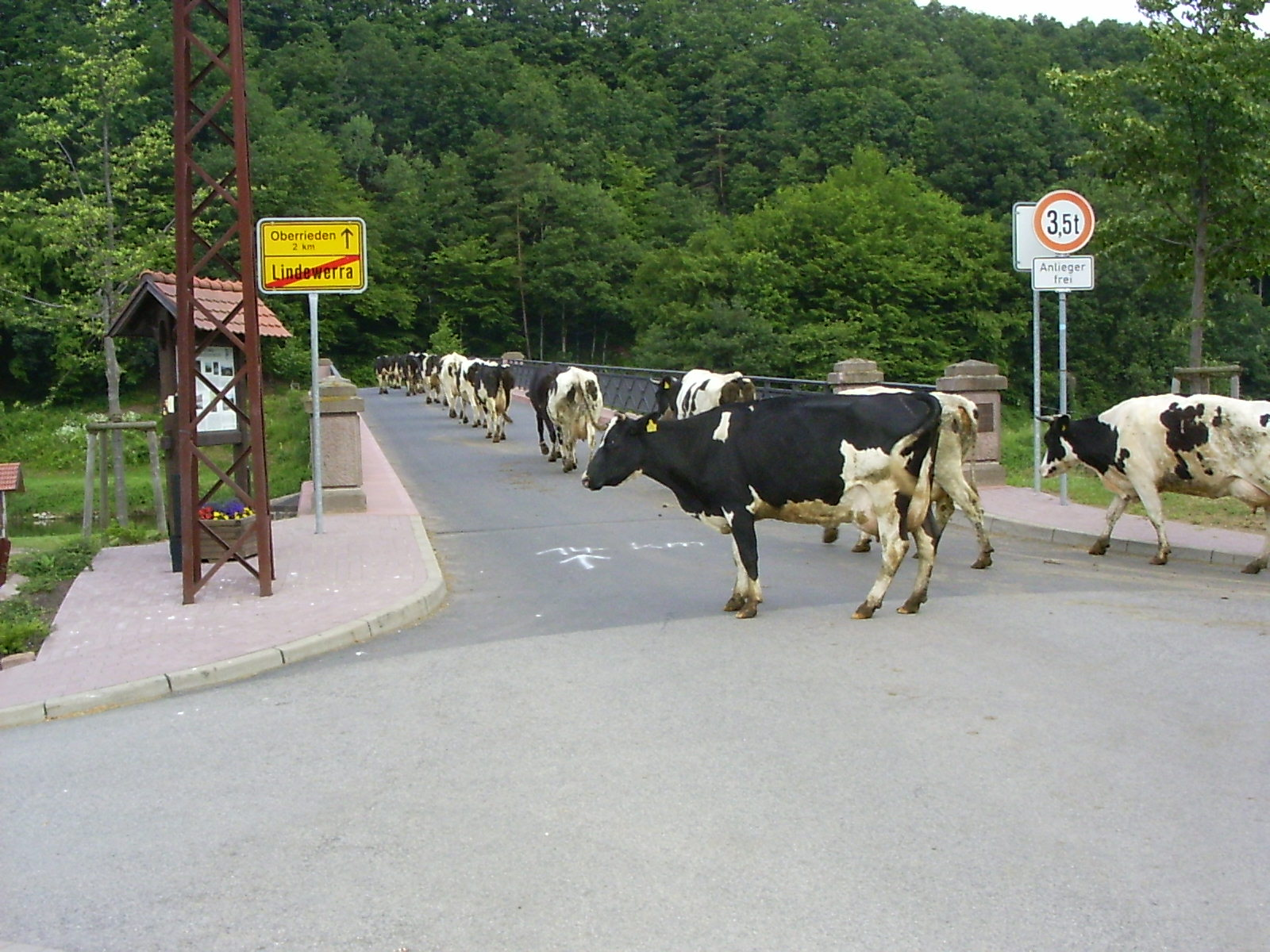 Cows crossing the former inner-German border